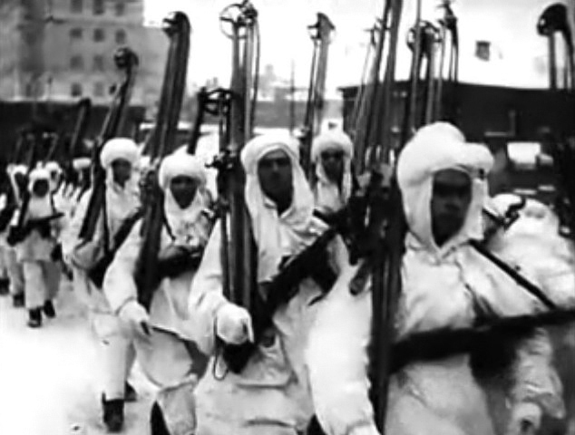 Still from Moscow Strikes Back, Soviet documentary of the Battle of Moscow. Directed by Ilya Kopalin. 1 of 4 films to win the 1943 Academy Award for Best Documentary.